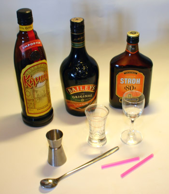 The ingredients of a B-52 cocktail.